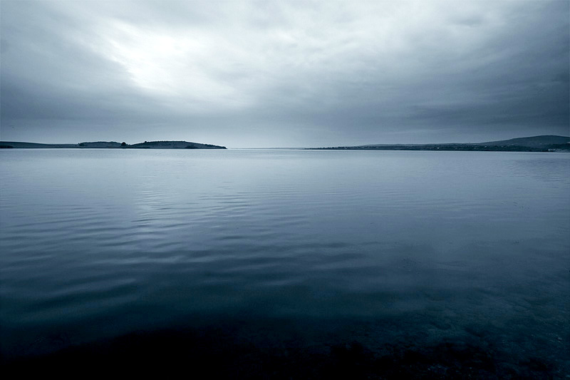 Lake_Mandrensko in Bulgaria